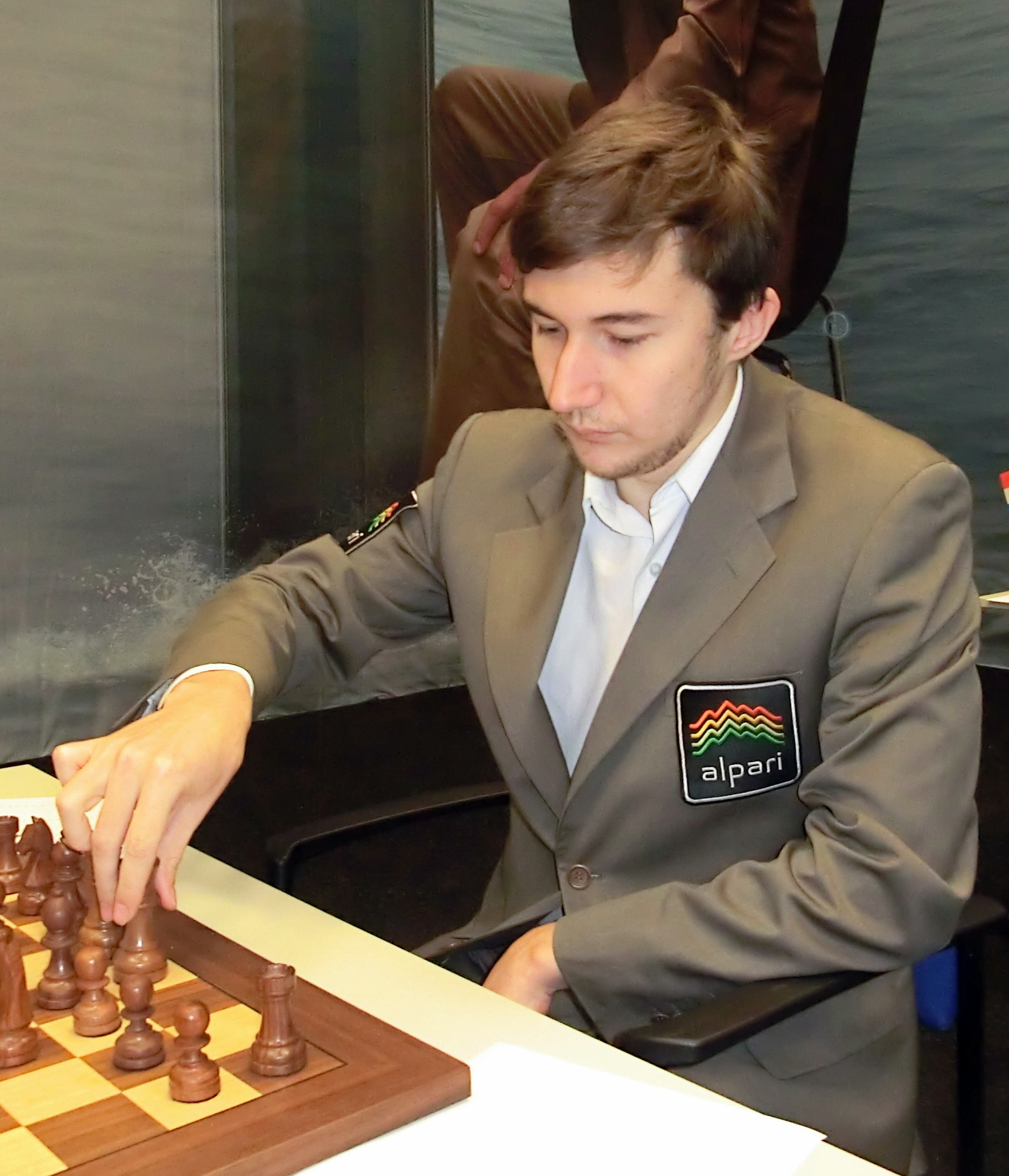 Sergey Karjakin, chess grandmaster from Russia